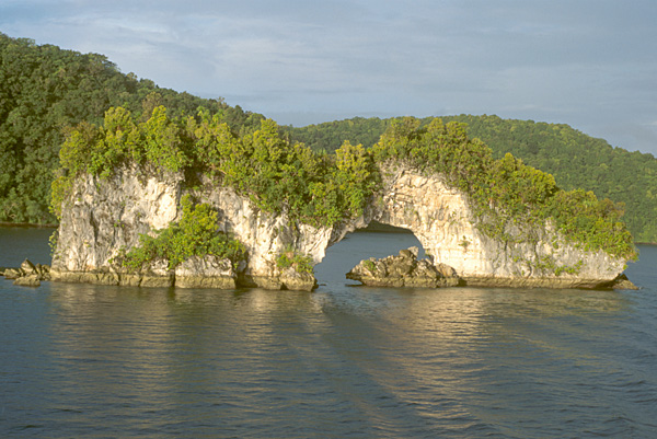 One of the many Rock Islands, Palau Islands, Micronesia. Image taken by Clark Anderson/Aquaimages.